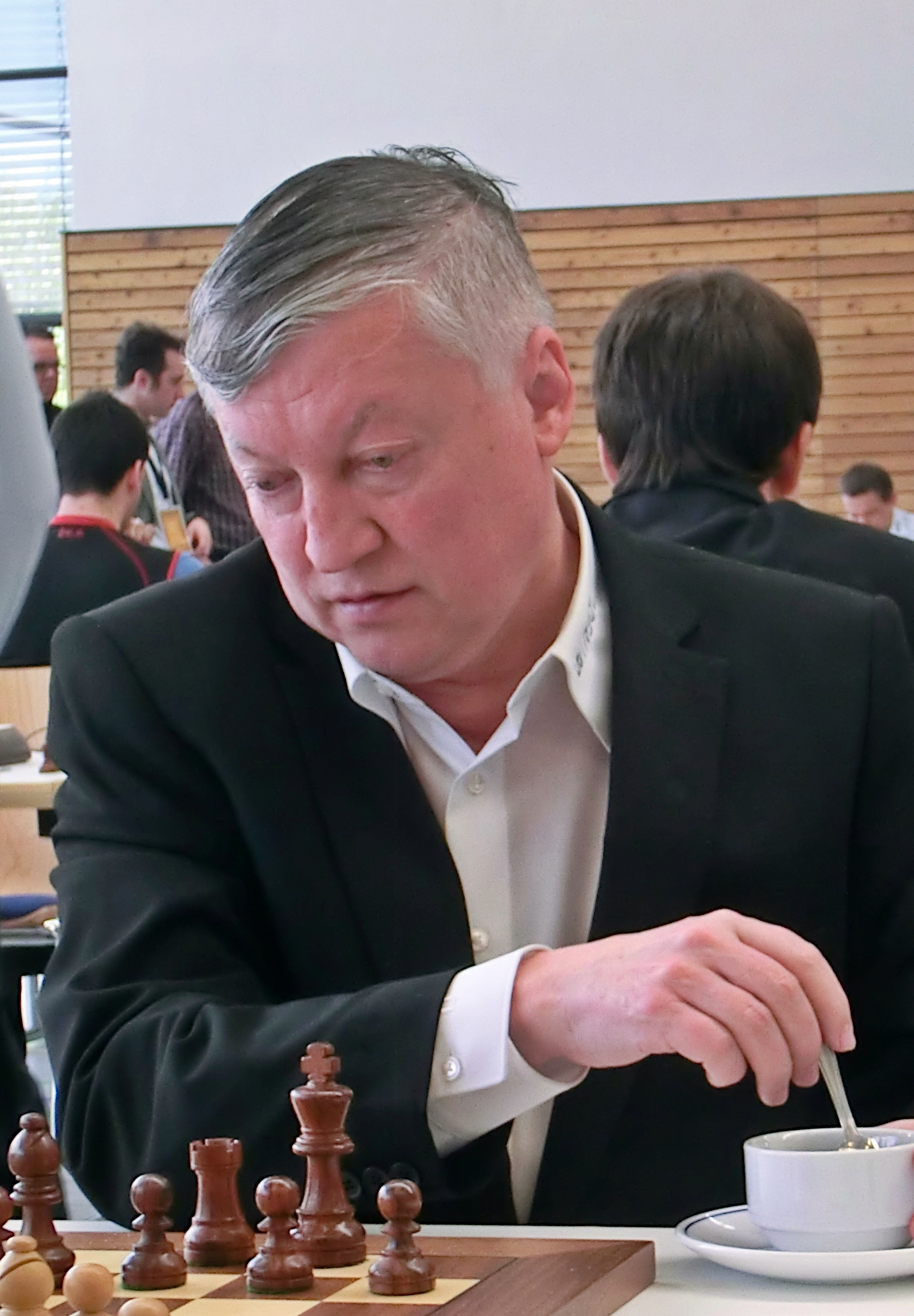 Anatoly Karpov, chess grandmaster and world champion